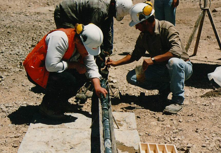 A geologist examining freshly recovered drill-core. Photo taken by User:Geoz. Chile, 1994.